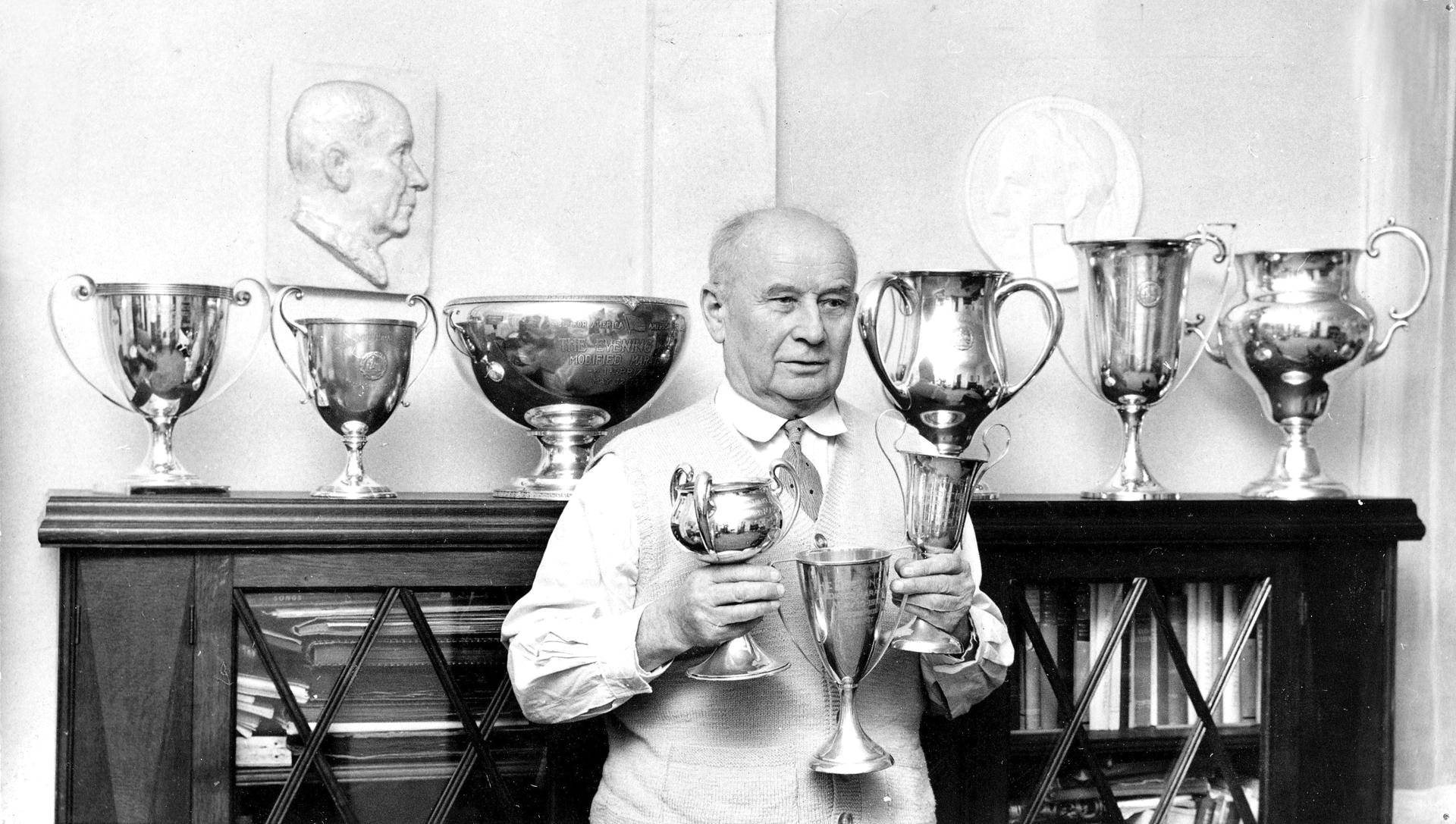 Photograph of the Finnish long-distance runner Hannes Kolehmainen (1899–1966) with prizes.